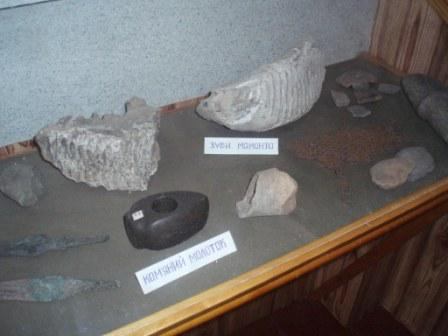 Археологічні_експонати_